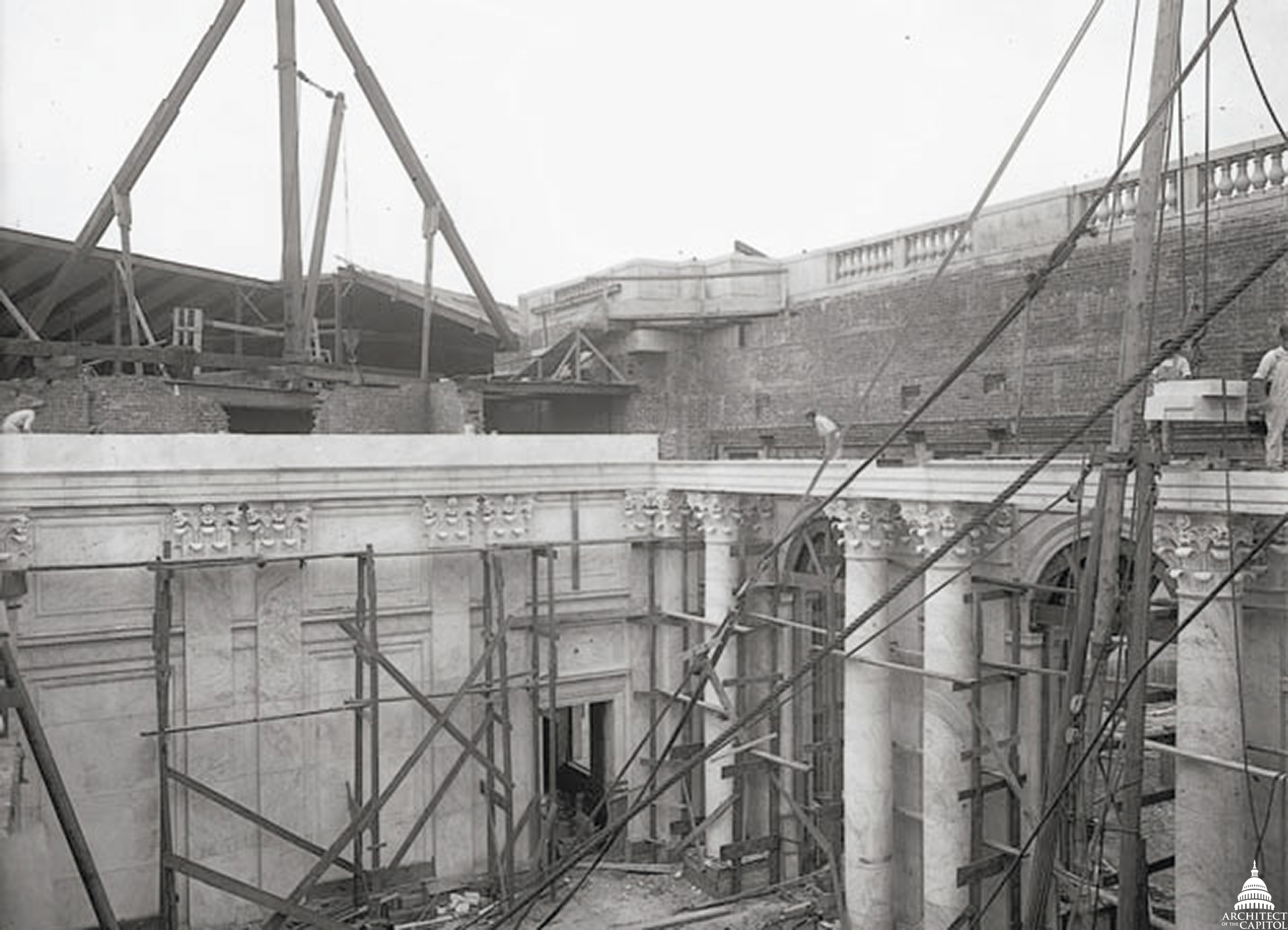 Construction of the Senate Caucus Room in the Russell Senate Office Building in 1908.